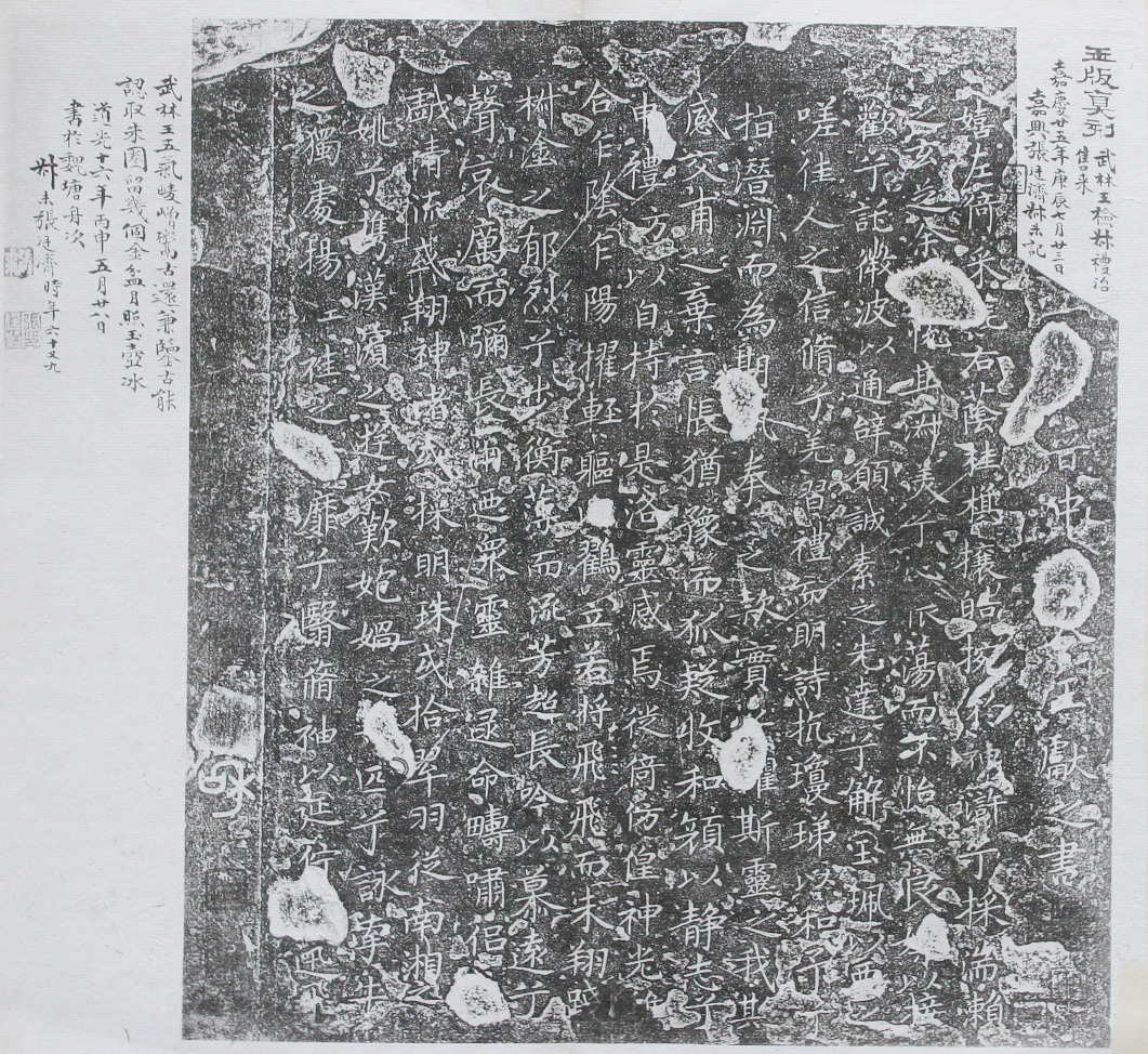 Rubbing of model of the 13 lines Calligraphy "Ode Godess Luo Liver" by Wang Xianzhi(ACE344?386), Jin Dynasty The model plate was attributed to the work in Southern Song Dynasty 13th century. The rubbing was made in Qing Dynasty.